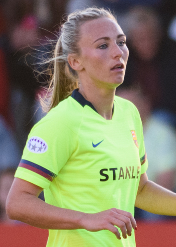 Toni Duggan during the Champions League match vs Fc Bayern München